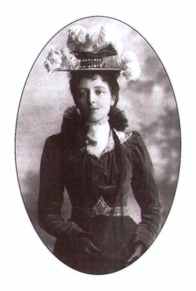 Lucy Maud Montgomery in a photograph believed to have been taken at the time she arrived in Halifax to work at the Echo.